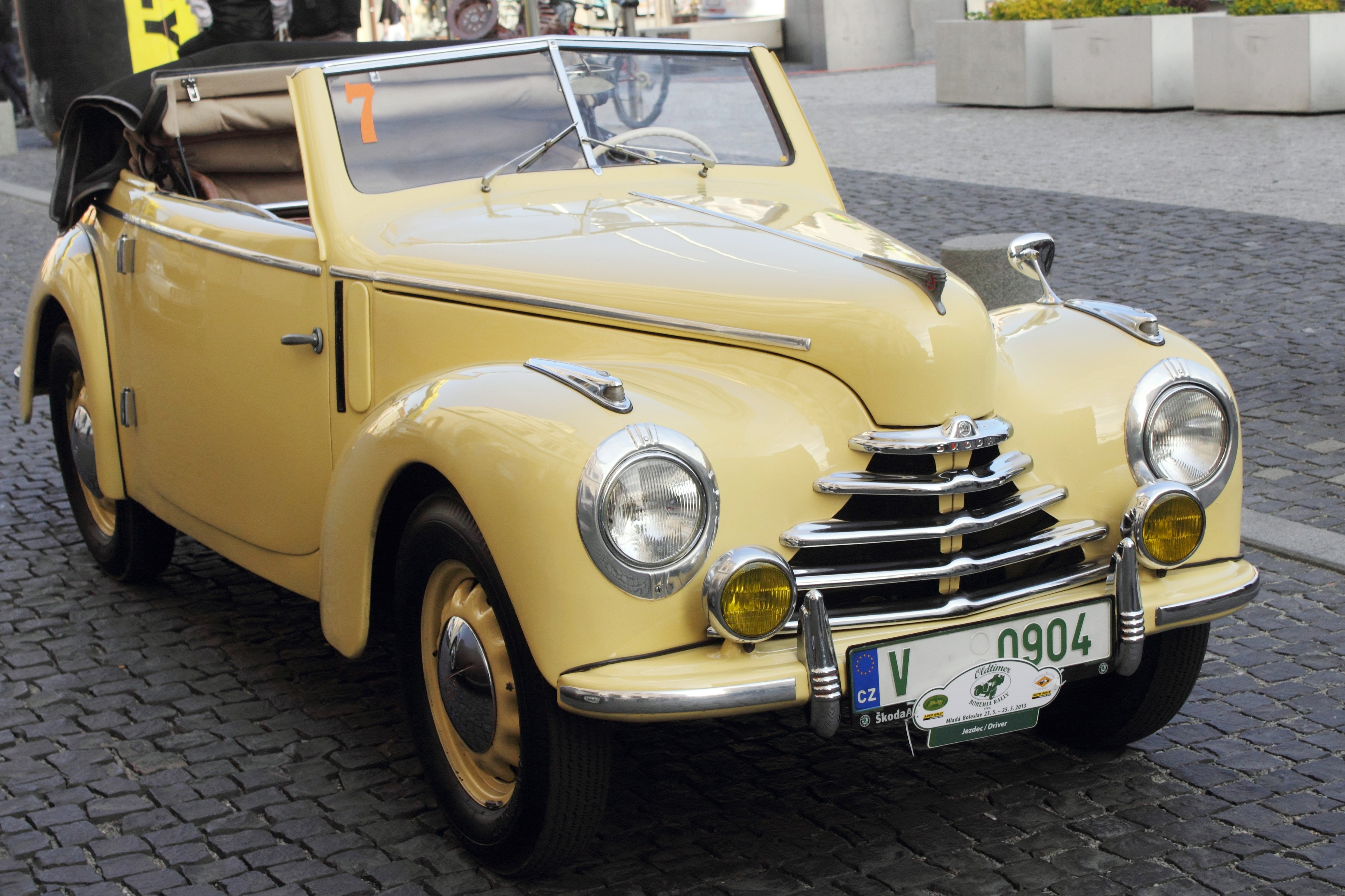 Škoda 1102 roadster (1949), 2013 Oldtimer Bohemia Rally, Mladá Boleslav